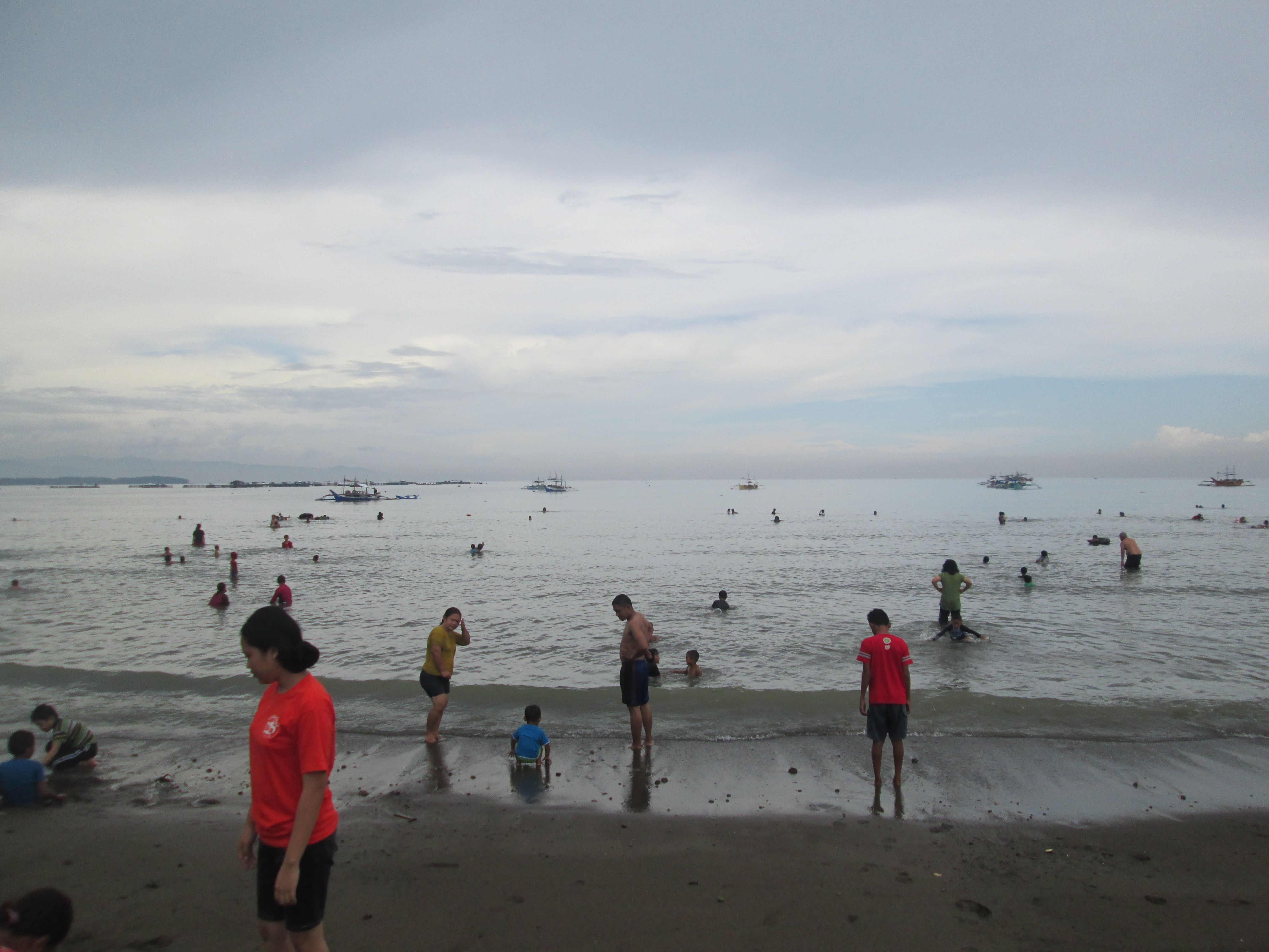 The Ladol beach served not only a public recreational venue but also a source of livelihood of the local resident in Barangay Ladol, Alabel, Sarangani Province.